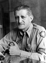 LTG John Reed Hodge [1]